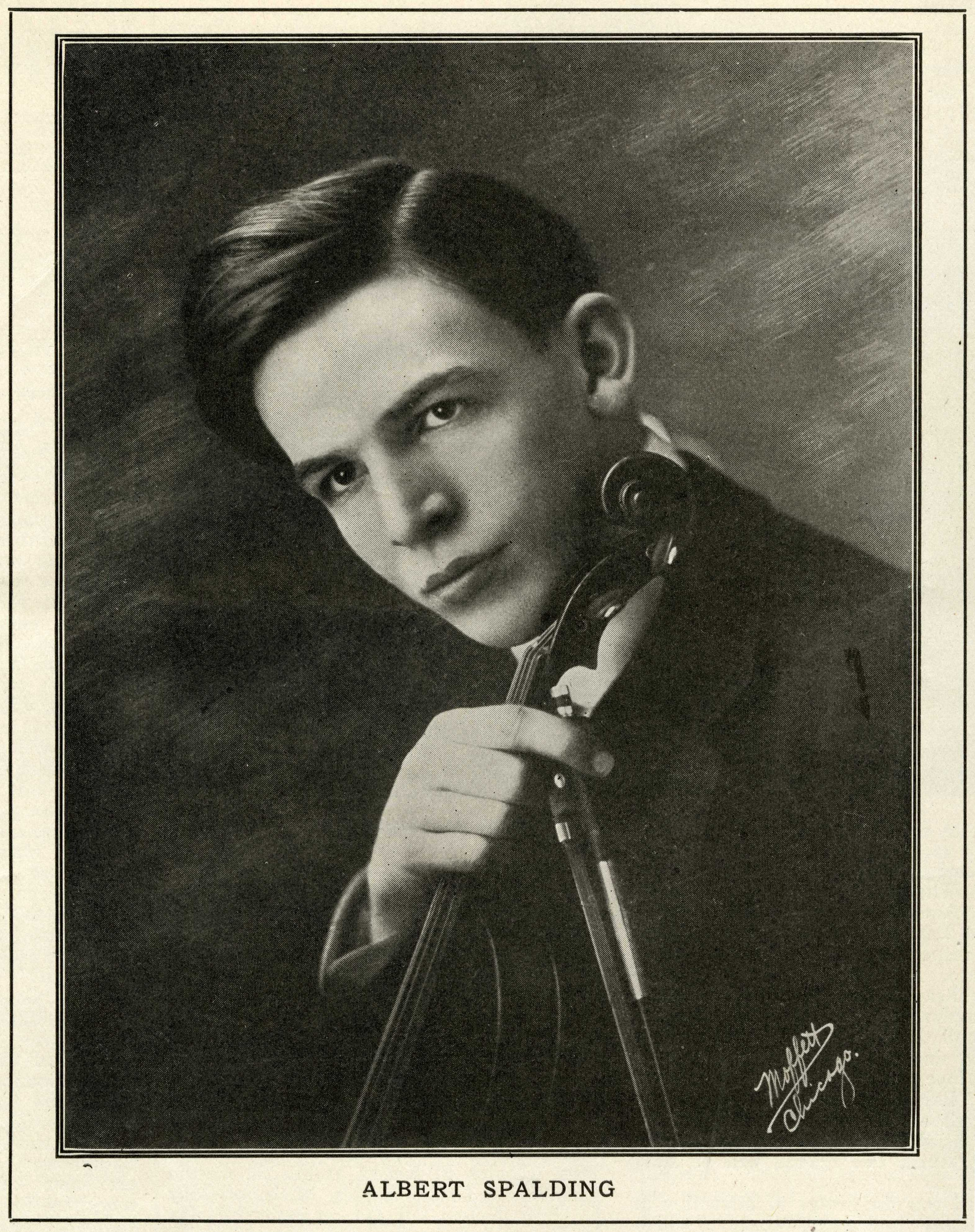 Portrait of violinist Albert Spalding used in an advertisement in Musical America.